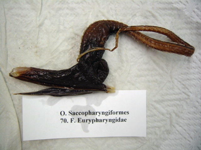 Preserved Eurypharyngid (Eurypharynx pelecanoides)